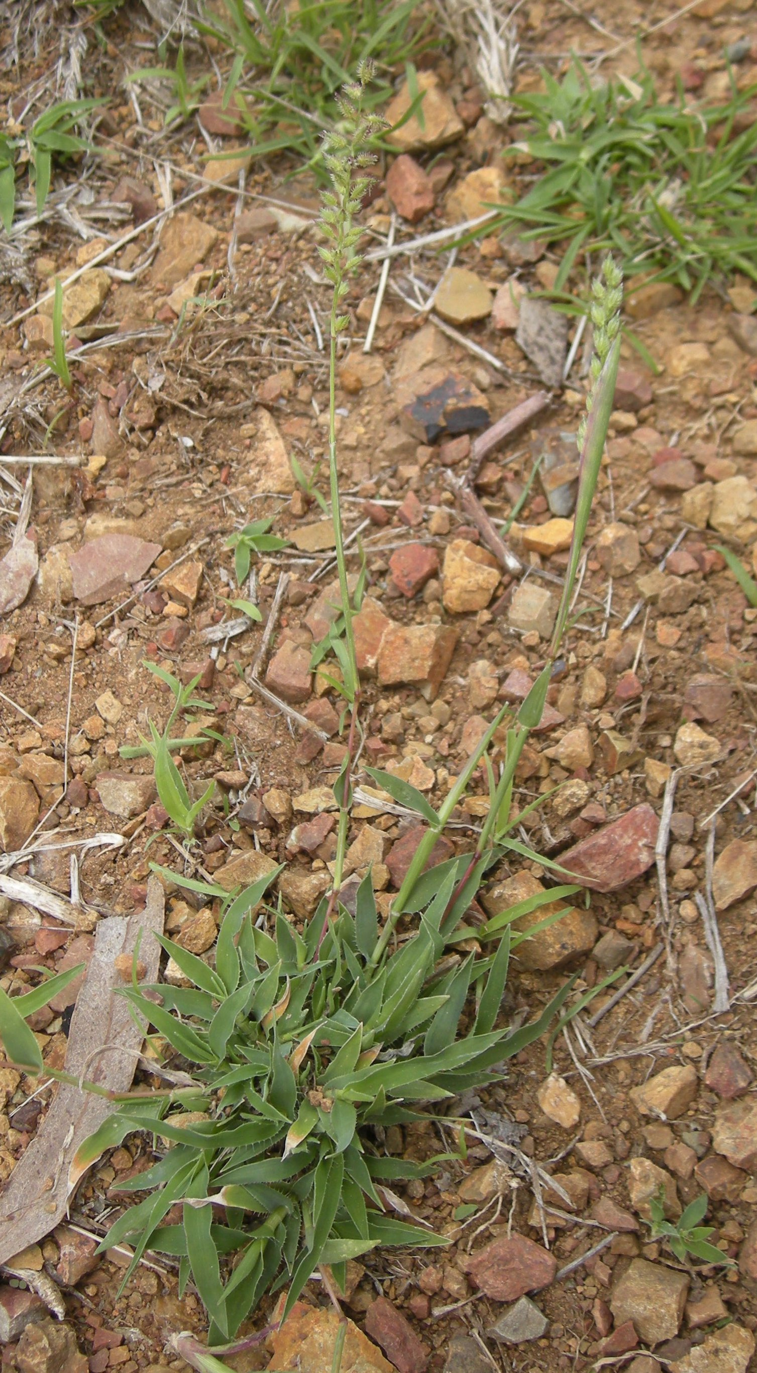 Tragus australianus habit. Mount Etna Caves National Park, Central Queensland.